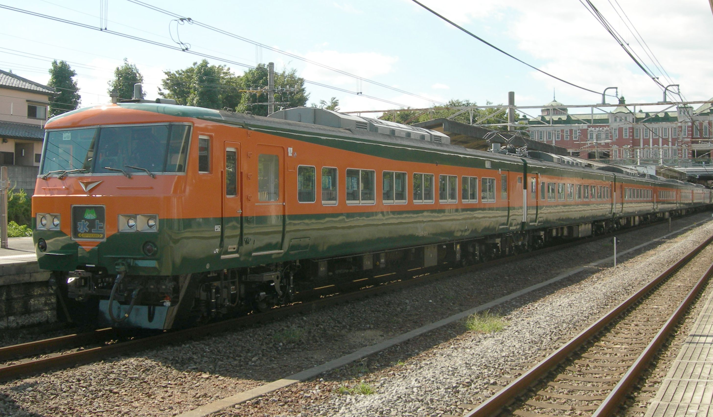 JR East 185-200 series EMU set OM3 reliveried in "Shonan" colour scheme at Fukaya Station on a "Minakami" limited express service